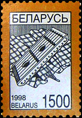 Stamp of Belarus